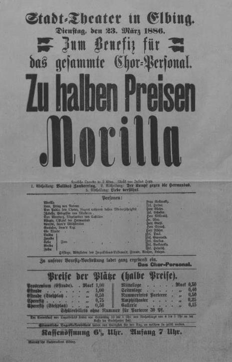 Poster for Julius Hopp's operetta 'Morilla', March 23, 1886, Town Theatre in Elbląg (Elbing)